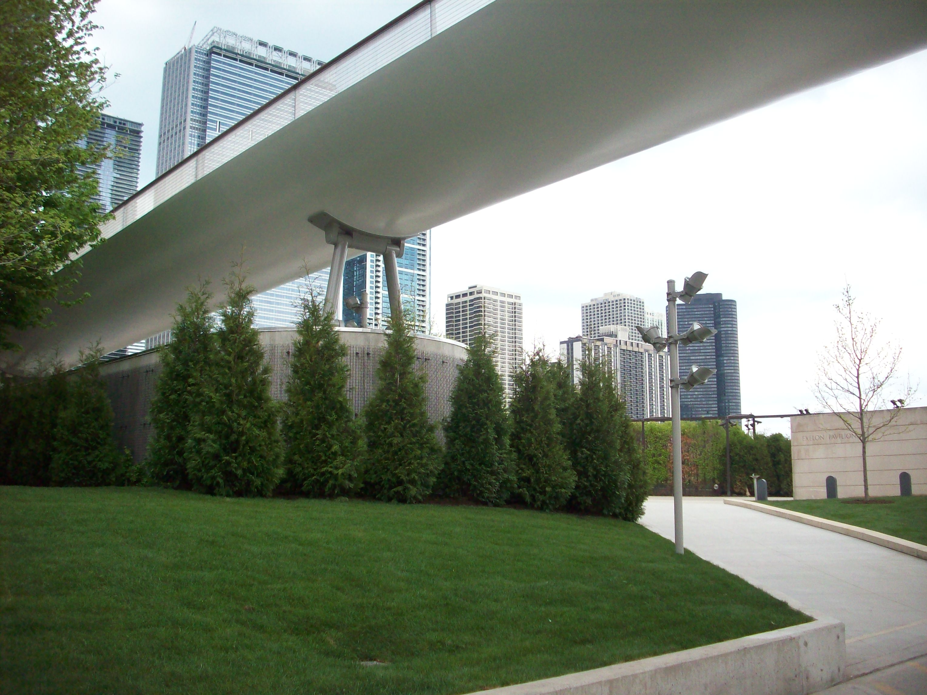 The Nichols Bridgeway complete in Millennium Park, Chicago, IL. Picture looking North from Monroe.